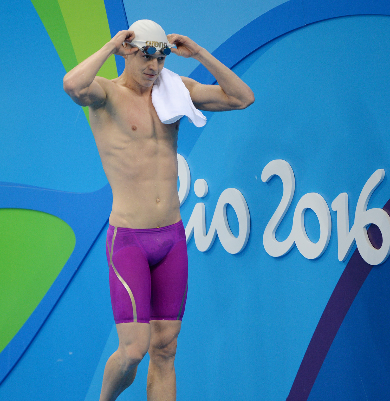 Raman Salei. Swimming at the 2016 Summer Paralympics – Men's 100 metre backstroke S12